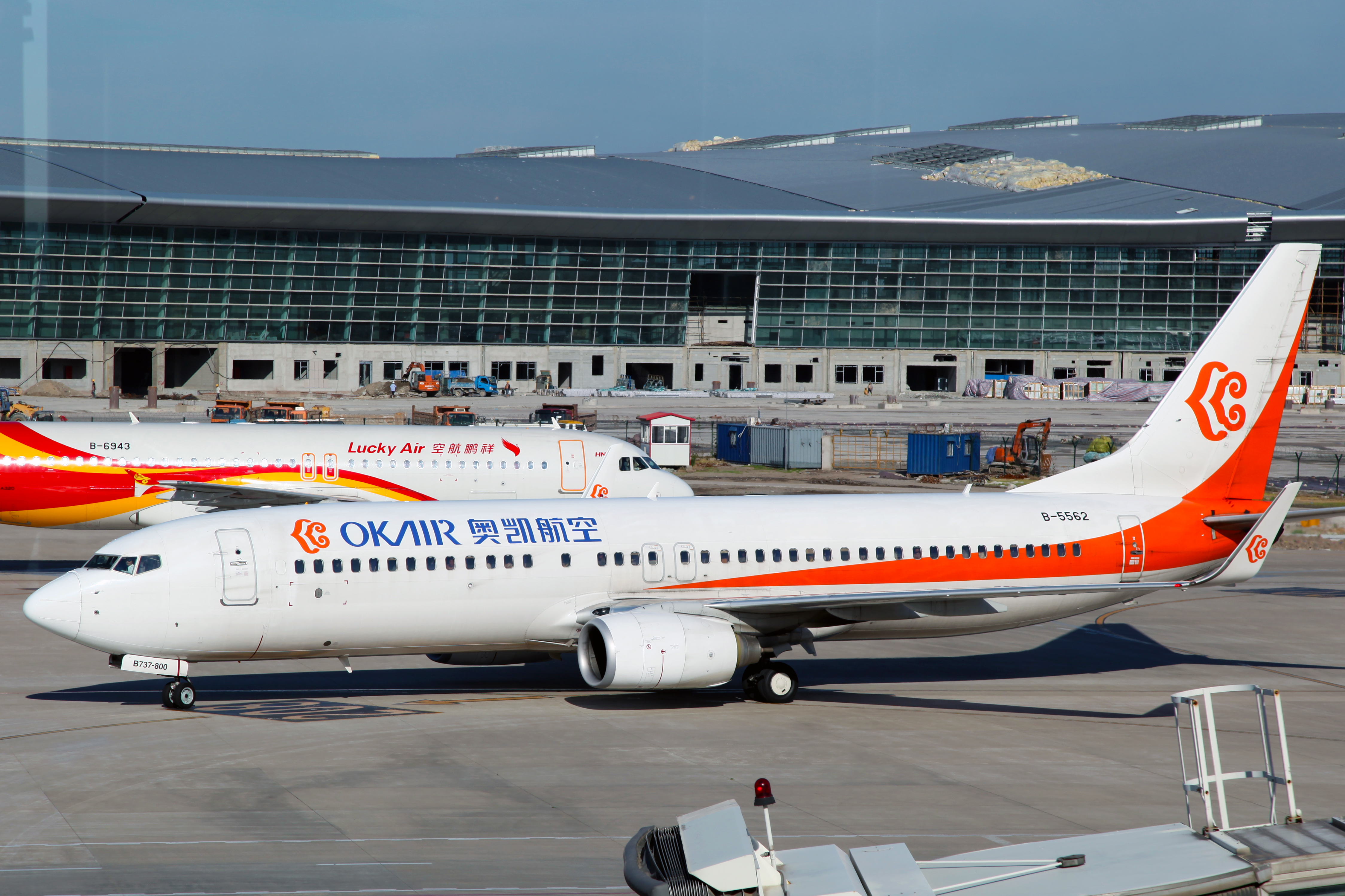 B-5562 | Okay Airways | Boeing 737-8HO(WL) | Tianjin Binhai International Airport [TSN]